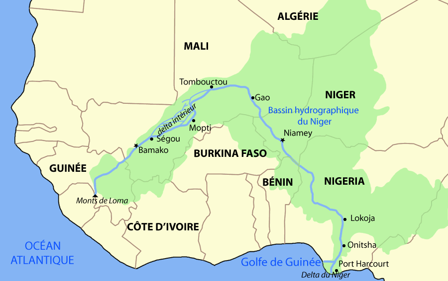 Niger river Inspired and translated from Blank map of the Niger River. Niger River Basin shown in green. made by User:Astrokey44 in Corel Painter IX from several sources. See also Image:Niger river map.PNG for a map with English descriptions.the river is known as deltaopodemic river